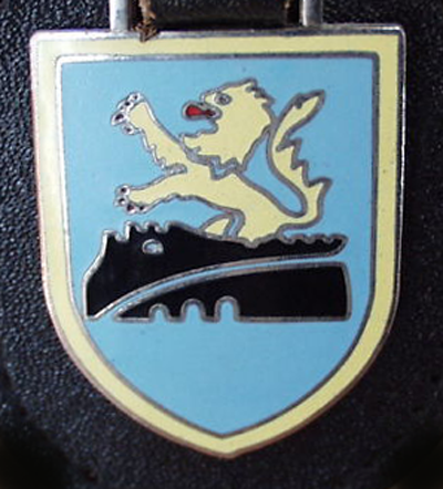 Staff & HQ Company 15th Armored Brigade